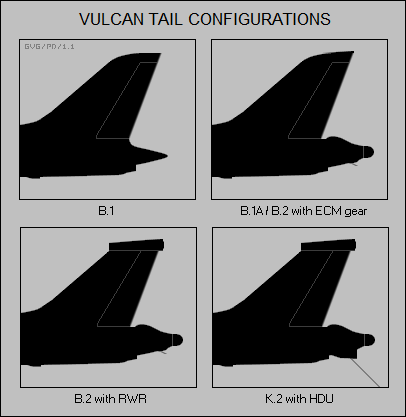 Scrap-view silhouettes of Avro Vulcan tail configurations